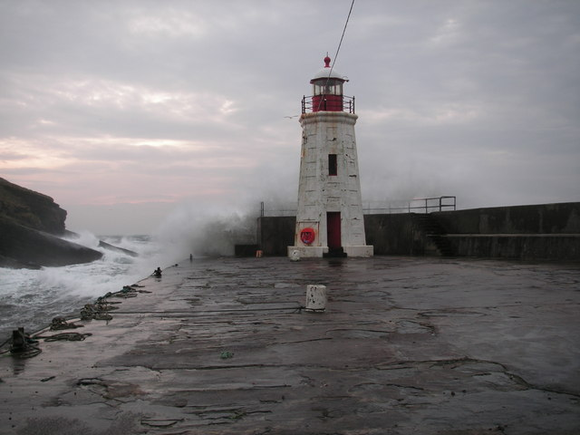 Lybster Lighthouse Lybster Lighthouse with sea coming in from the east.